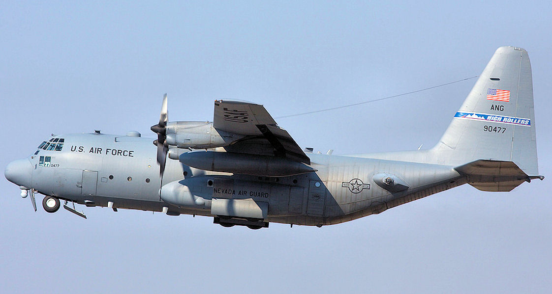 192d Airlift Squadron C-130H Scathe View aircraft 79-0477 79-0473 through 79-0480 were fitted with Scathe View reach-back communication suite, FLIR, Nemesis DIRCM turrets